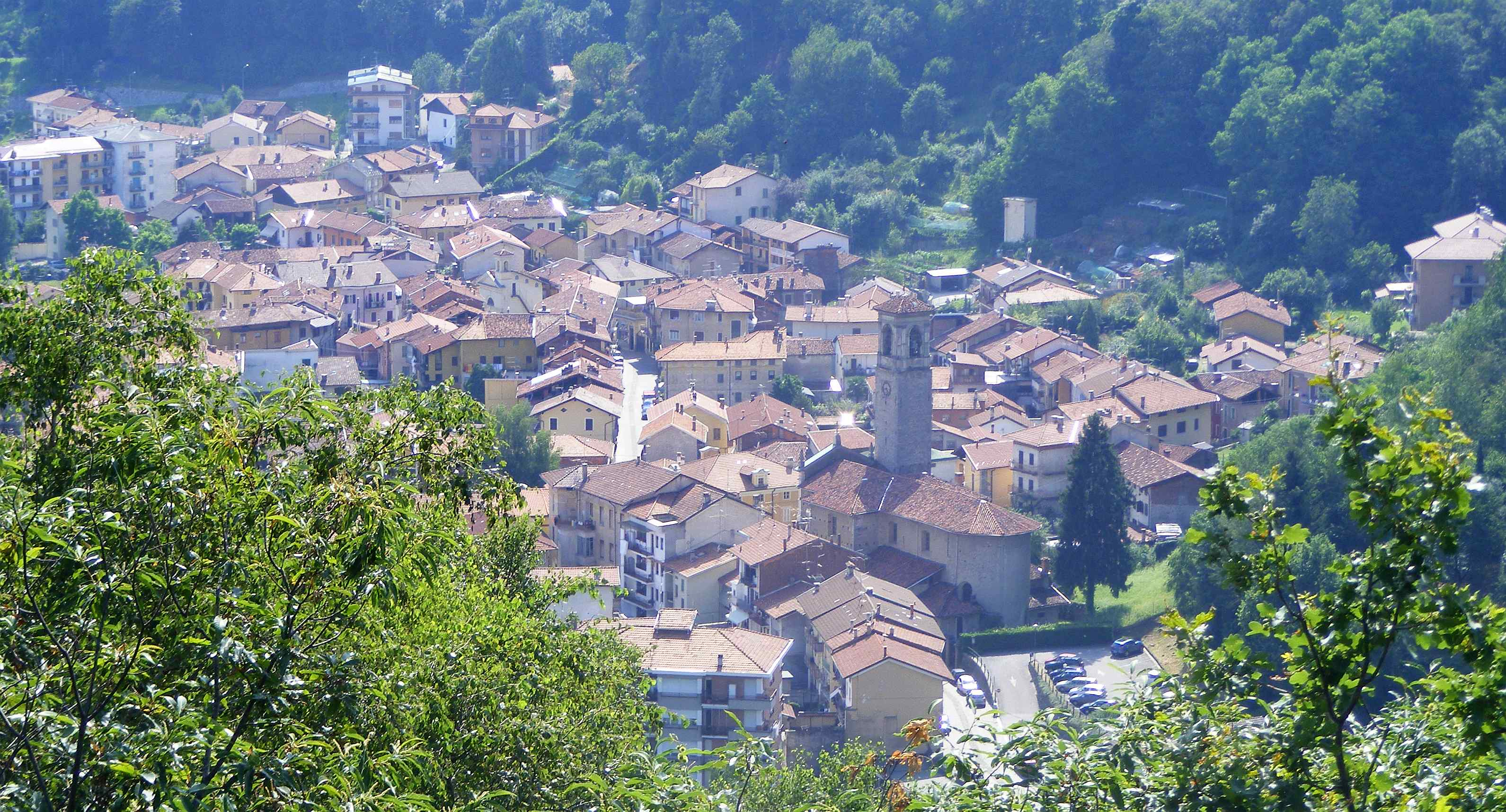 Tollegno (BI, Italy): panorama from Colma di Biella-cantone Randolina footpath